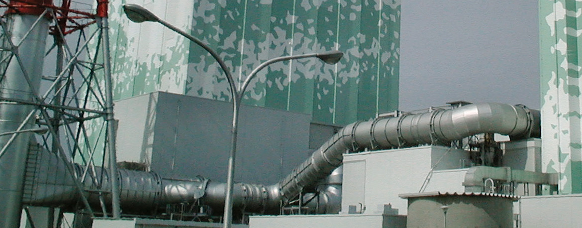 Vent pipe of Fukushima I nuclear power station Unit 5